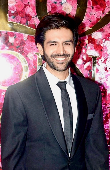 Kartik Aaryan at the 2016 Lux Golden Rose Awards